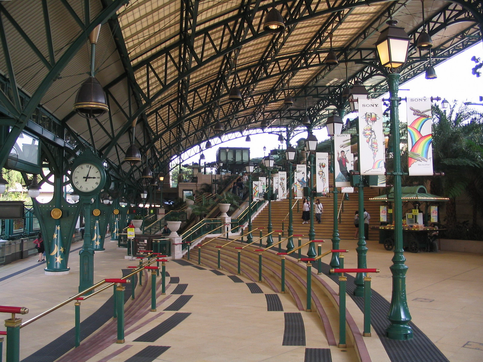 迪士尼站-迪士尼綫月台 Disneyland Resort Line Platform of Disneyland Resort Station